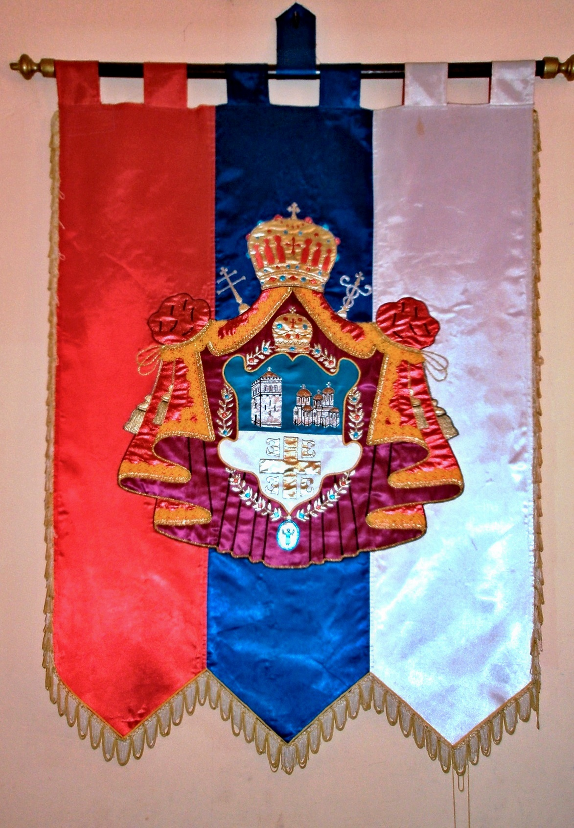 Coat of arms of the Serbian orthodox Church (photo taken in Hildesheim)